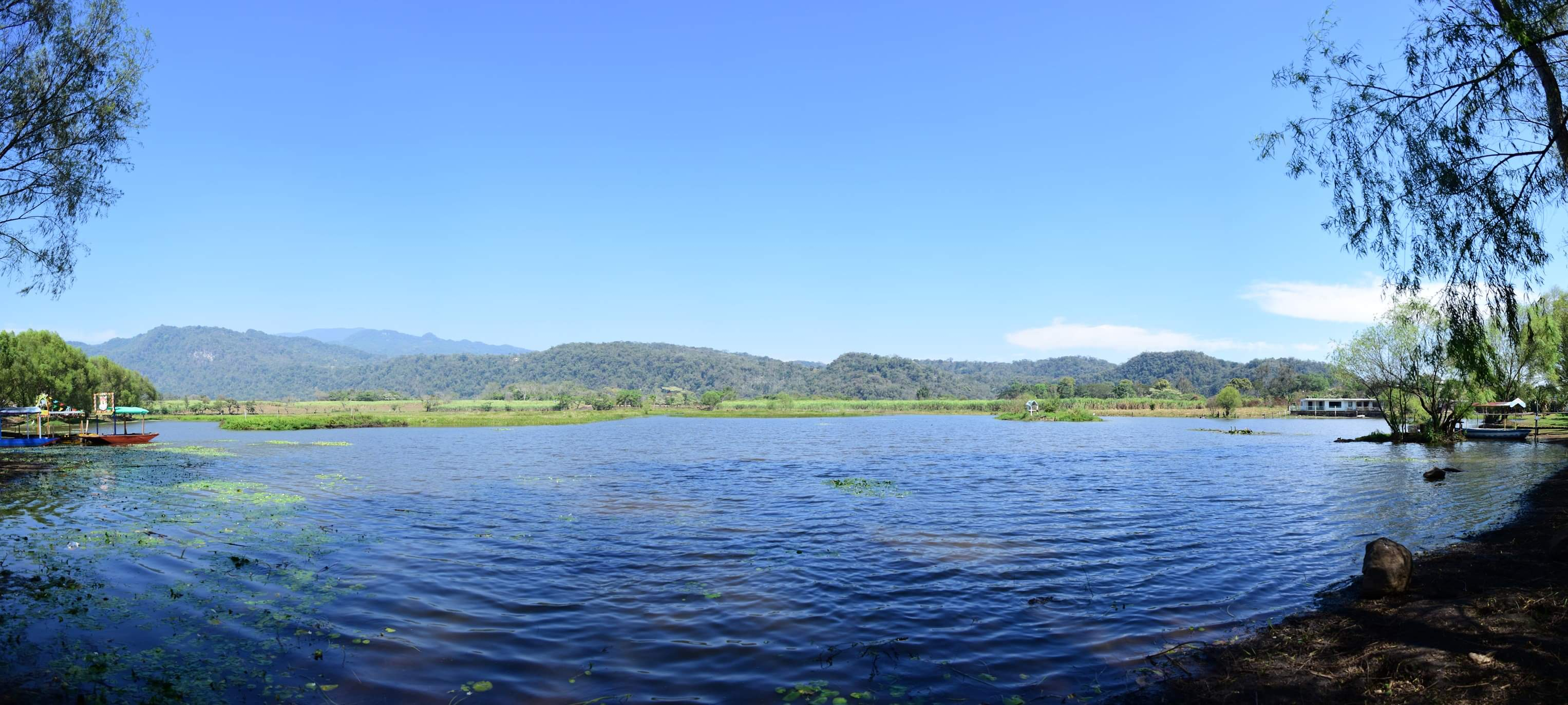 lagoon in rural area